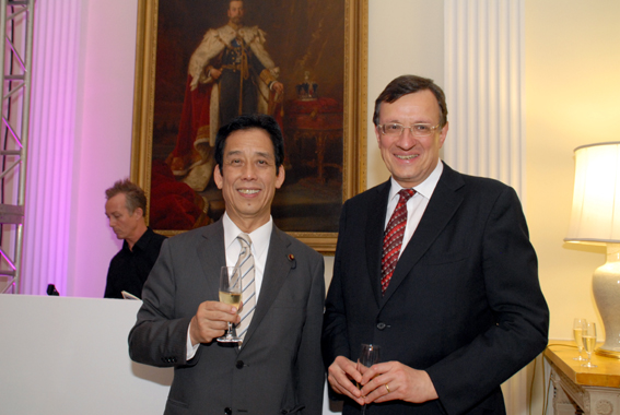 Tatsuo Kawabata, Minister for Internal Affairs and Communications, met David Warren, Ambassador to Japan, at the special Diamond Jubilee party on June 6, 2012.